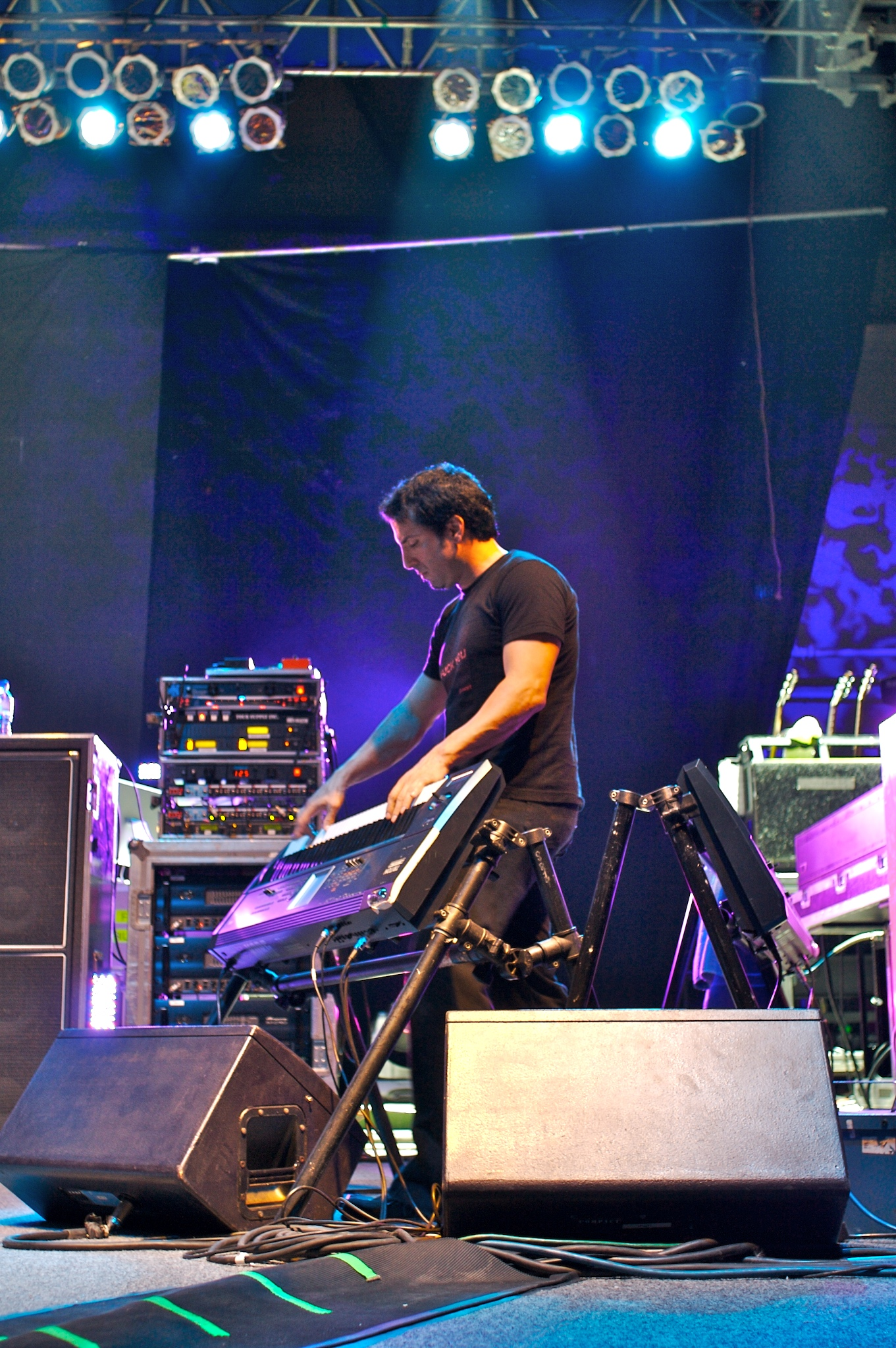 Derek Sherinian